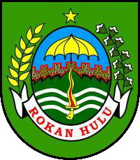 Coat of arms of Rokan Hulu Regency